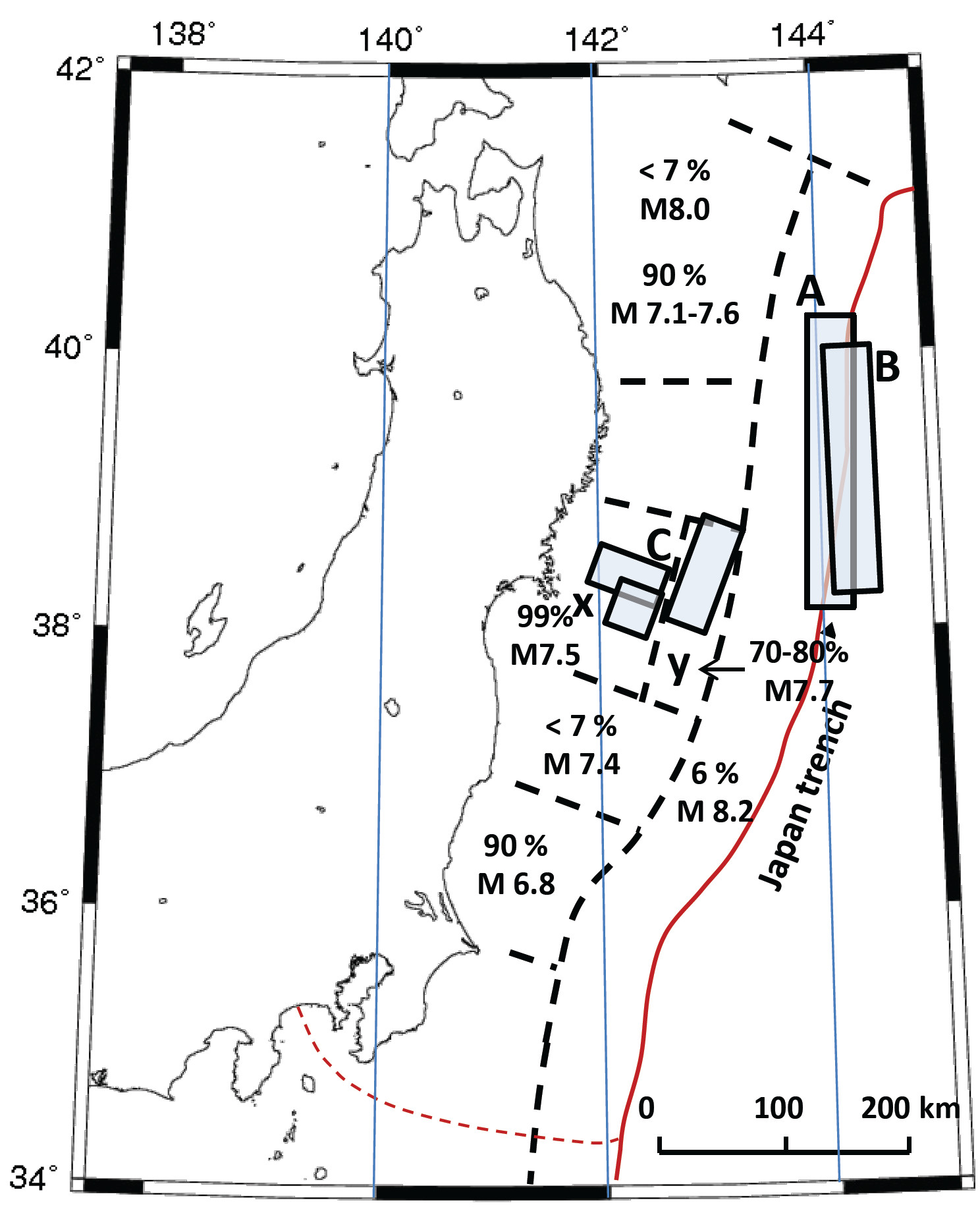 Source: M. Ando, M. Ishida, Y. Hayashi, C. Mizuki, Y. Nishikawa, and Y. Tu: "Interviewing insights regarding the fatalities inflicted by the 2011 Great East Japan Earthquake", Nat. Hazards Earth Syst. Sci., 13, 2173-2187, 2013, here: p. 2184, Fig.7. Published: 06 Sep 2013. License: Creative Commons Attribution 3.0. Caption of Fig. 2 (a)-(g) from the mentioned source: "Fig. 7. Forecasted fault segments on the plate interface near the Tohoku region between 35° and 41° N (Headquarters for Earthquake Research Promotion – HERP, 2002; {13} No. 13 in Table 1). Among the eight segments, five ruptured during the 2011 Great East Japan Earthquake. The 30 yr probability and the magnitude estimated by HERP are given on the map. The rectangles A, B and C show the fault planes for the three scenario earthquakes, similar to the 1896 Sanriku earthquake, the 1933 Sanriku earthquake, and the Compound Offshore Miyagi prefecture earthquake, respectively, near Iwate and Miyagi prefectures."